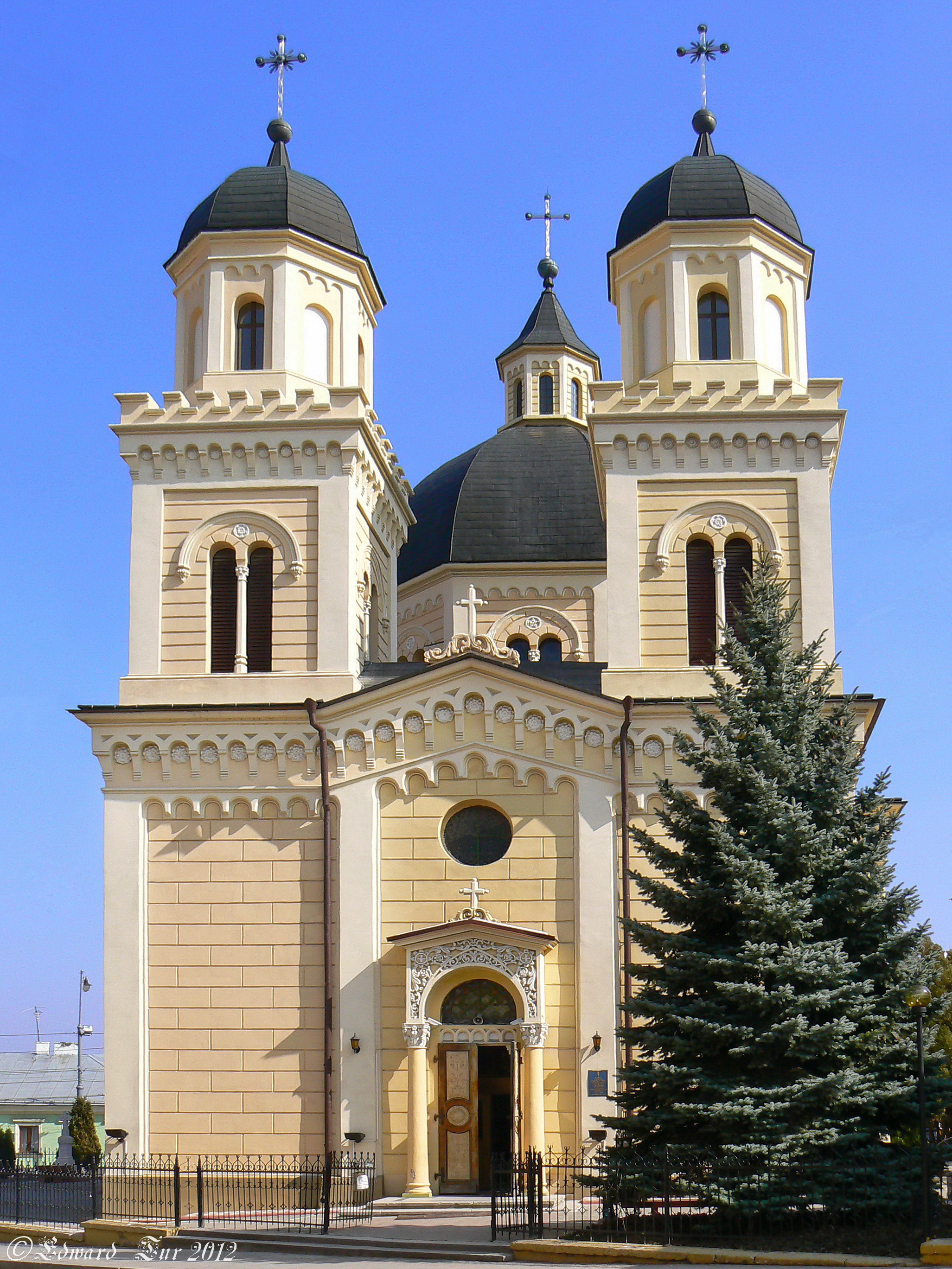 Saint Parascheva of the Balkans church in Chernivtsi